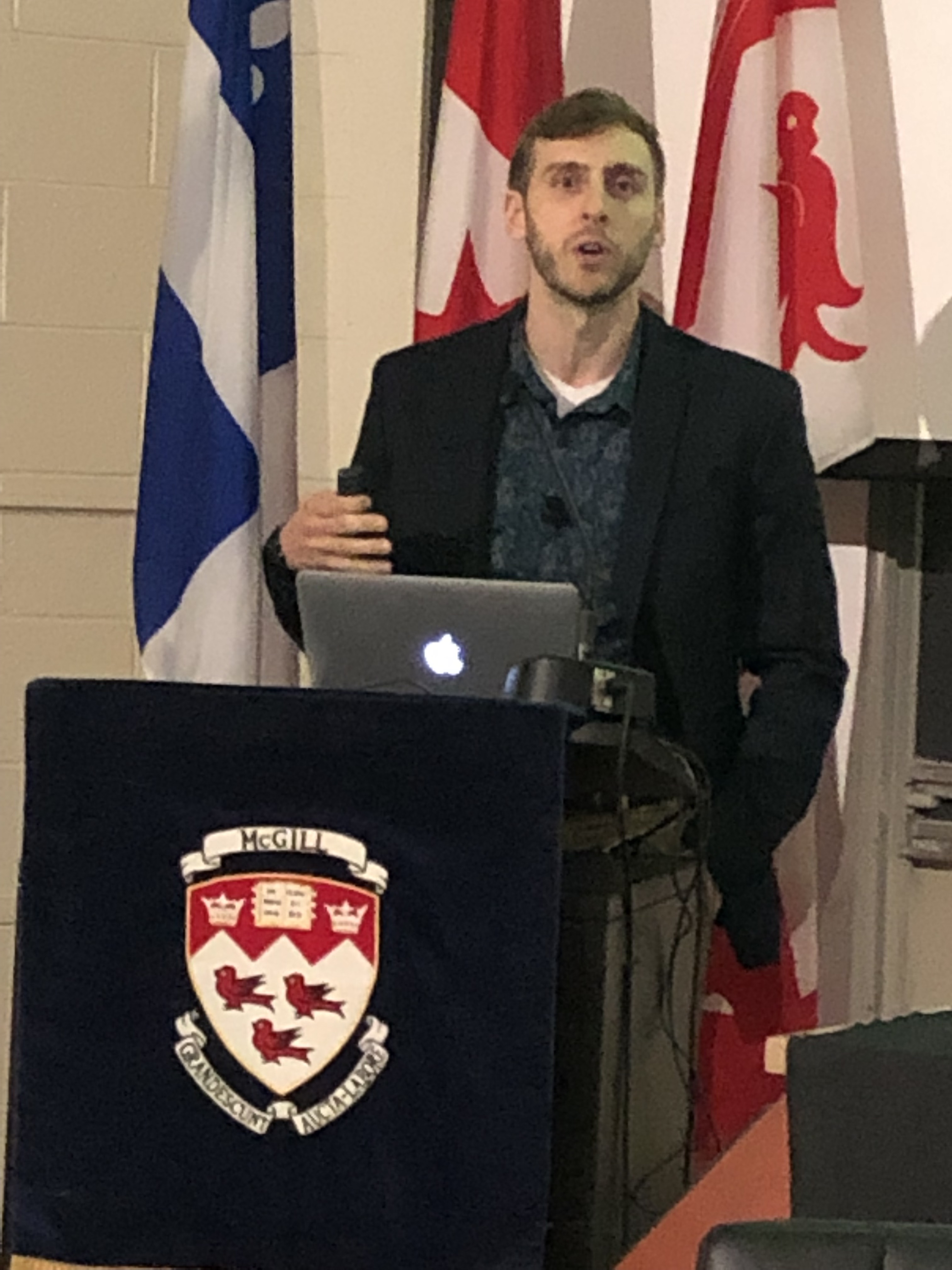 Ryan Armstrong, Executive Director of Bad Science Watch, speaking at the 20th anniversary panel of McGill University's Office for Science and Society, Montreal, May 23, 2019.